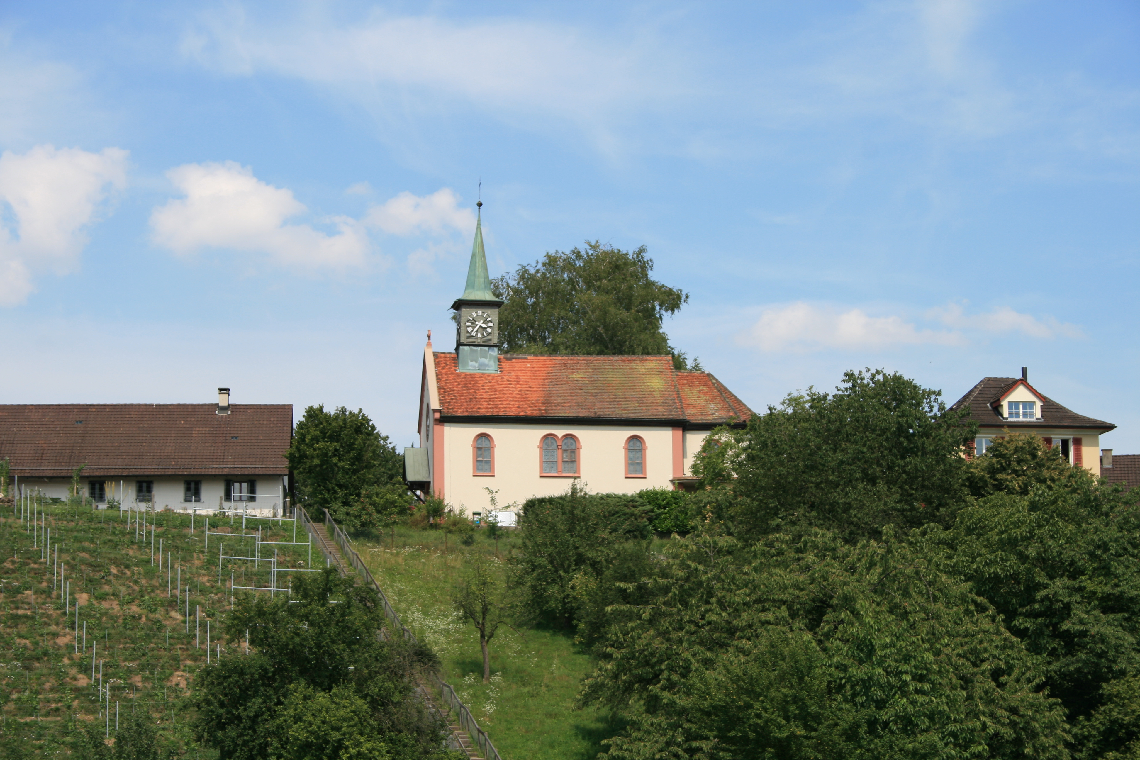 Chapel in Baden-Rütihof